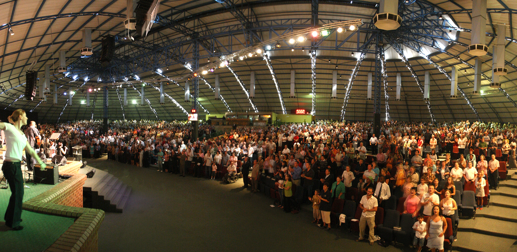 Worship service at the AFM Word and Life in Boksburg South Africa. Photo taken by Tommy Ackerman